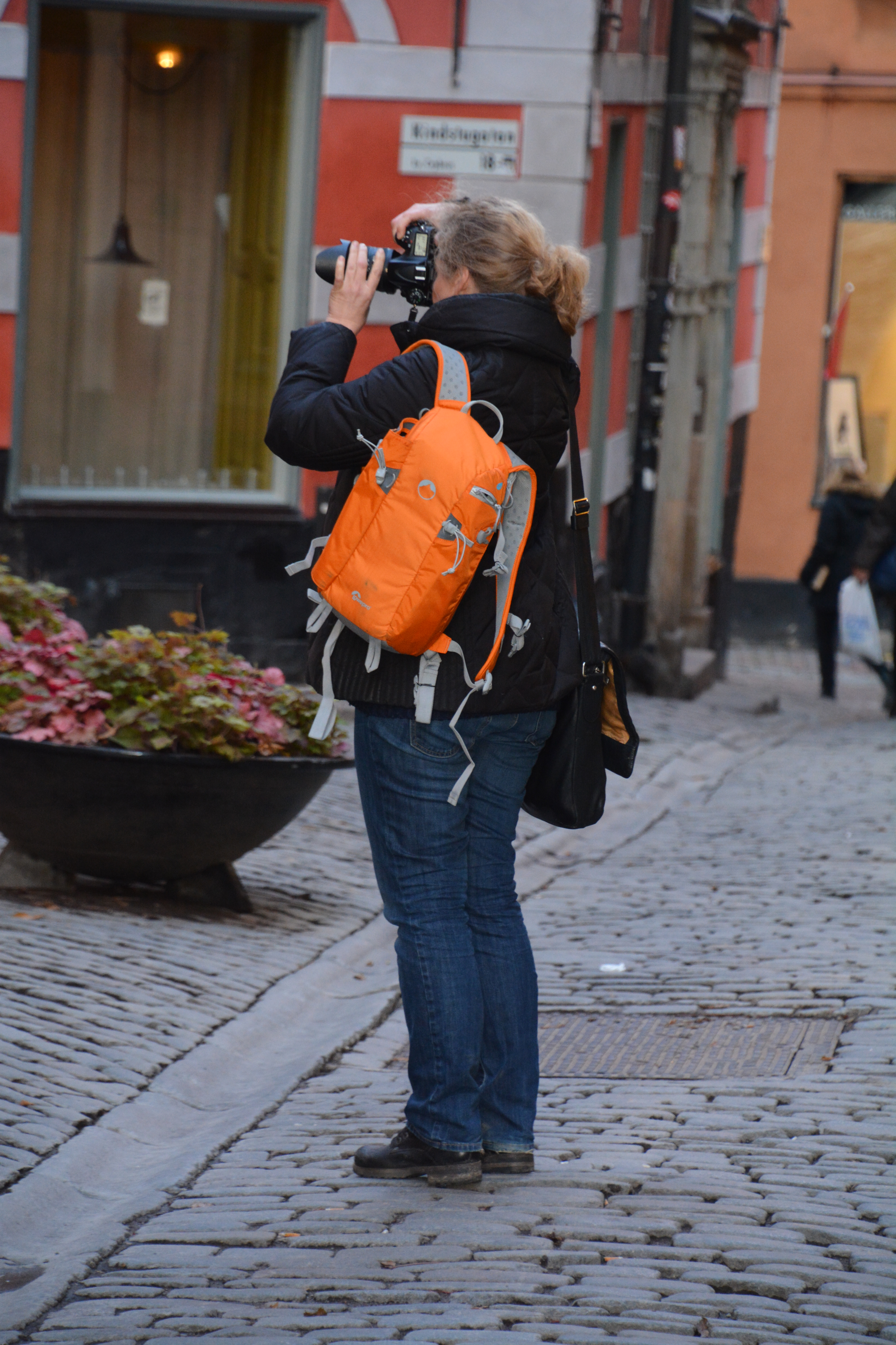 Photographer, Old town in Stockholm